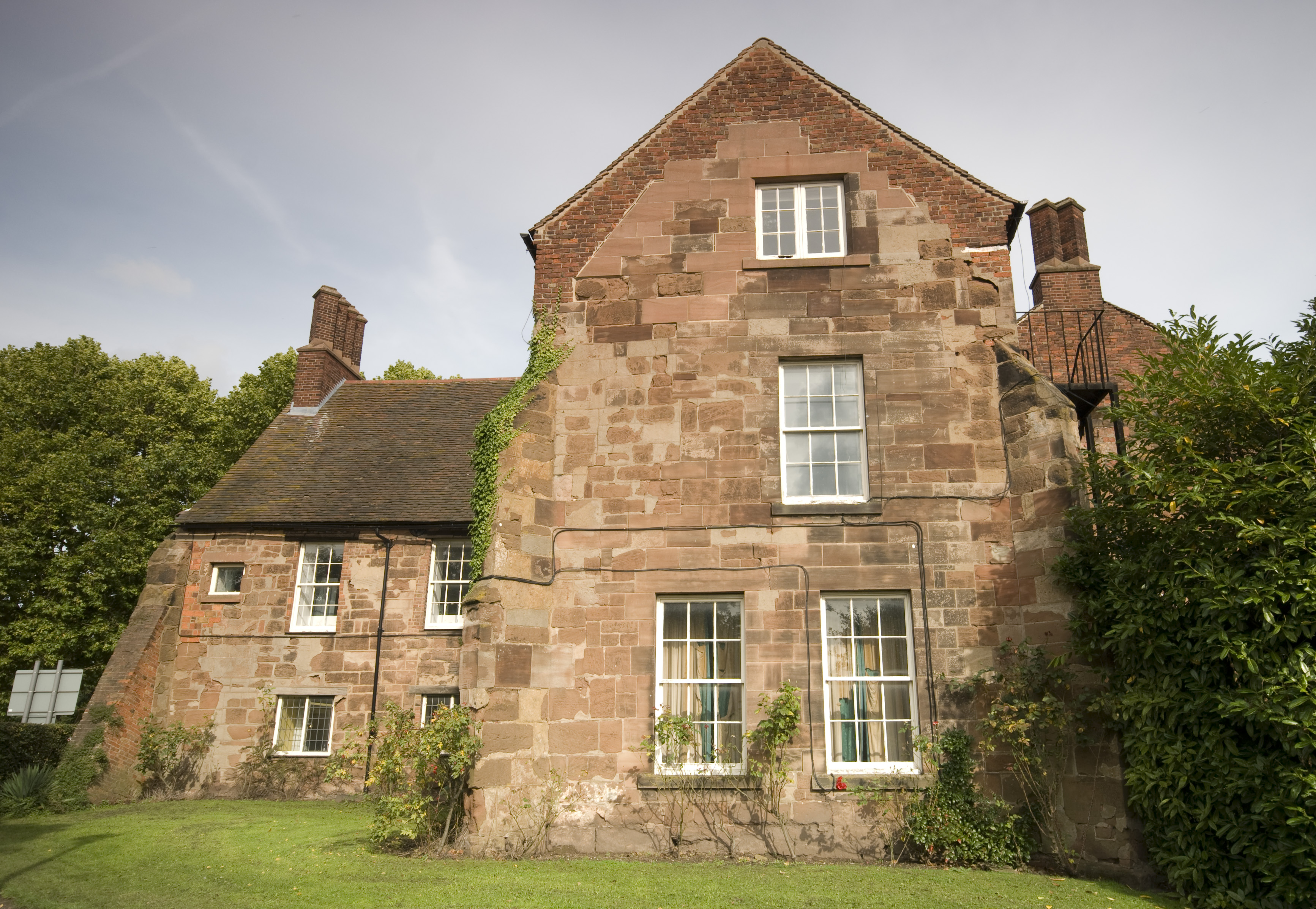 The only remaining buildings of the original Friary. These early 16th century buildings made up the Bishops Lodgings. They now form part of Lichfield Library